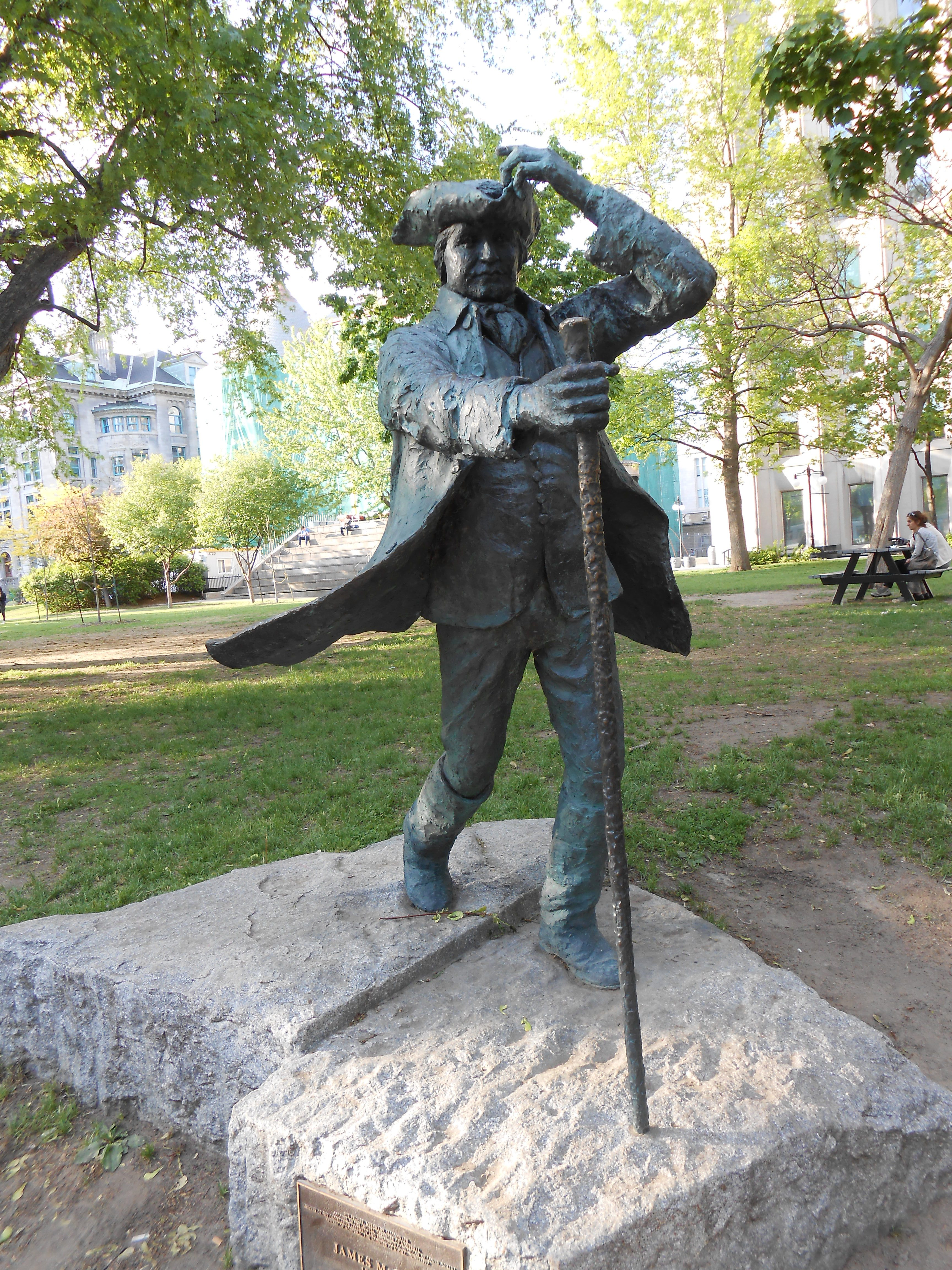 This statue of James McGill, founder of the University, was commissioned by the McGill associates in celebration of the 175th anniversary of McGill University and unveiled on June 6, 1996. Sculptor: David Roper-Curzon